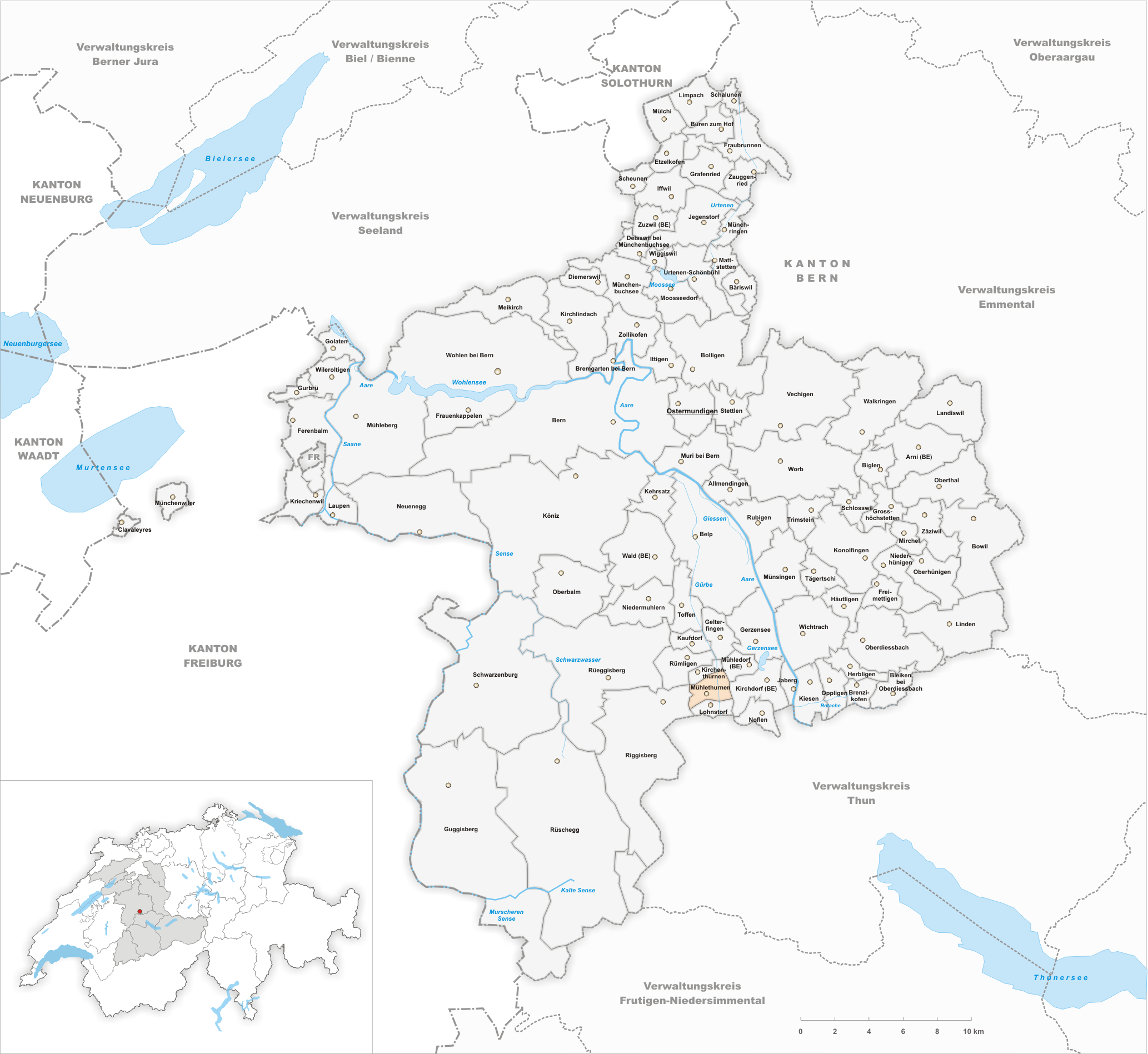 Municipality Mühlethurnen